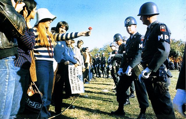 Photograph of a Female Demonstrator Offering a Flower to a Military Police Officer, 10/21/1967